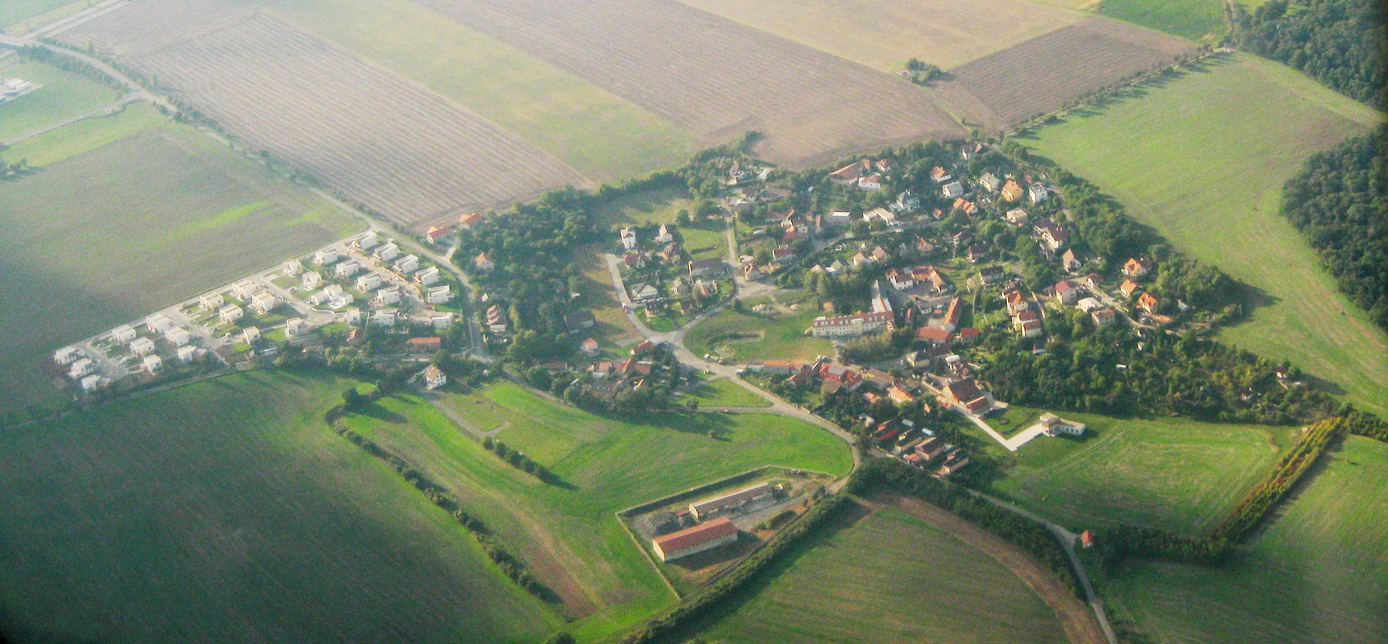 Aerial photography of a village in Central Bohemia